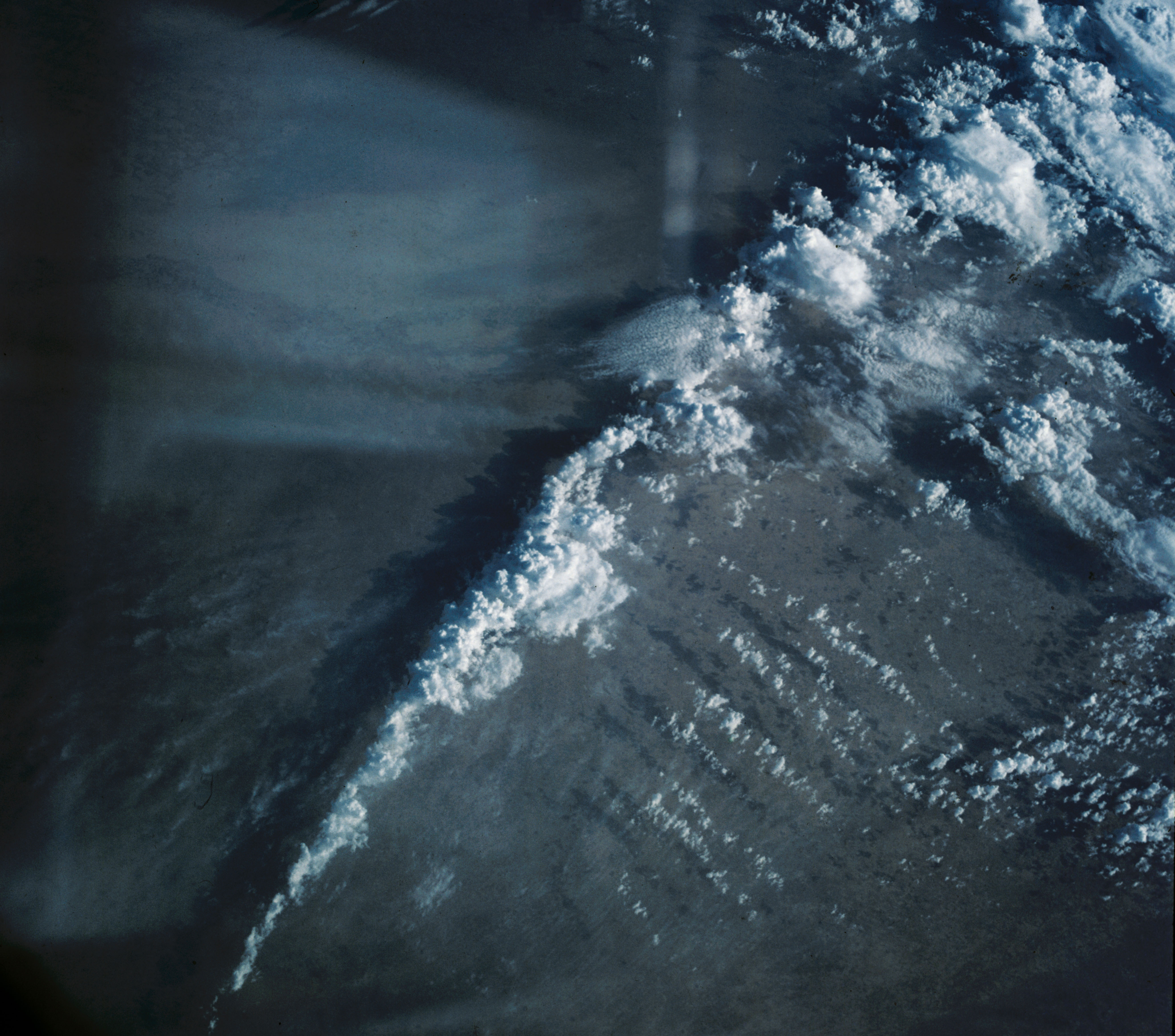 The Great Indian Desert, located west of New Delhi, India, as photographed from the Mercury-Atlas 9 (MA-9) capsule by astronaut L. Gordon Cooper Jr., during his 22-orbit MA-9 spaceflight.